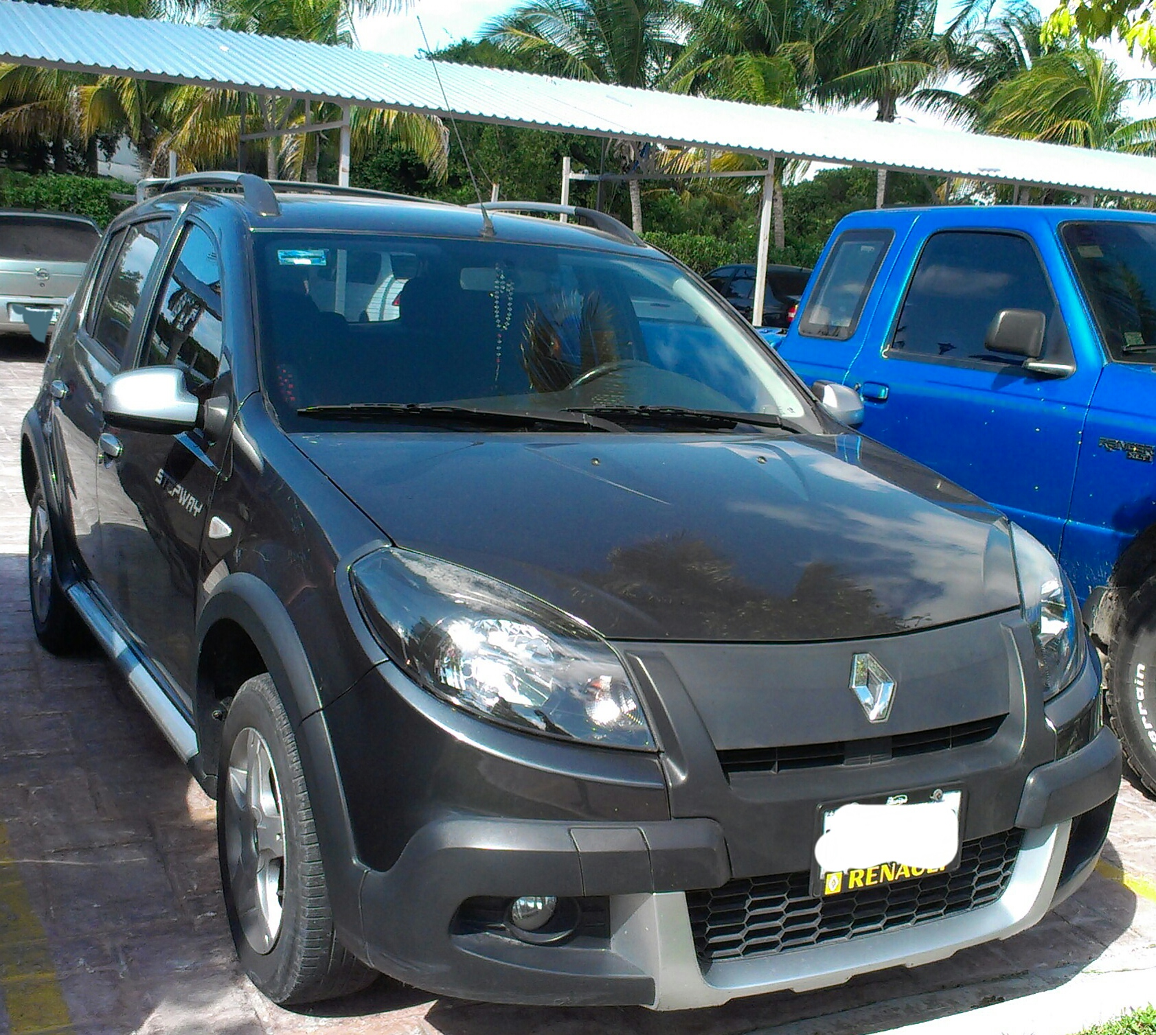 2012-present Renault Sandero Stepway photographed in Cancun, Quintana Roo, Mexico.